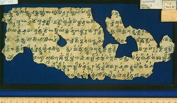 Leaf "THT 133" (also "B 133") of a manuscript containing a metrical kāvya text in archaic Tocharian B; found in 1906 in the Kizil Caves by the third German Turfan expedition[1][2]